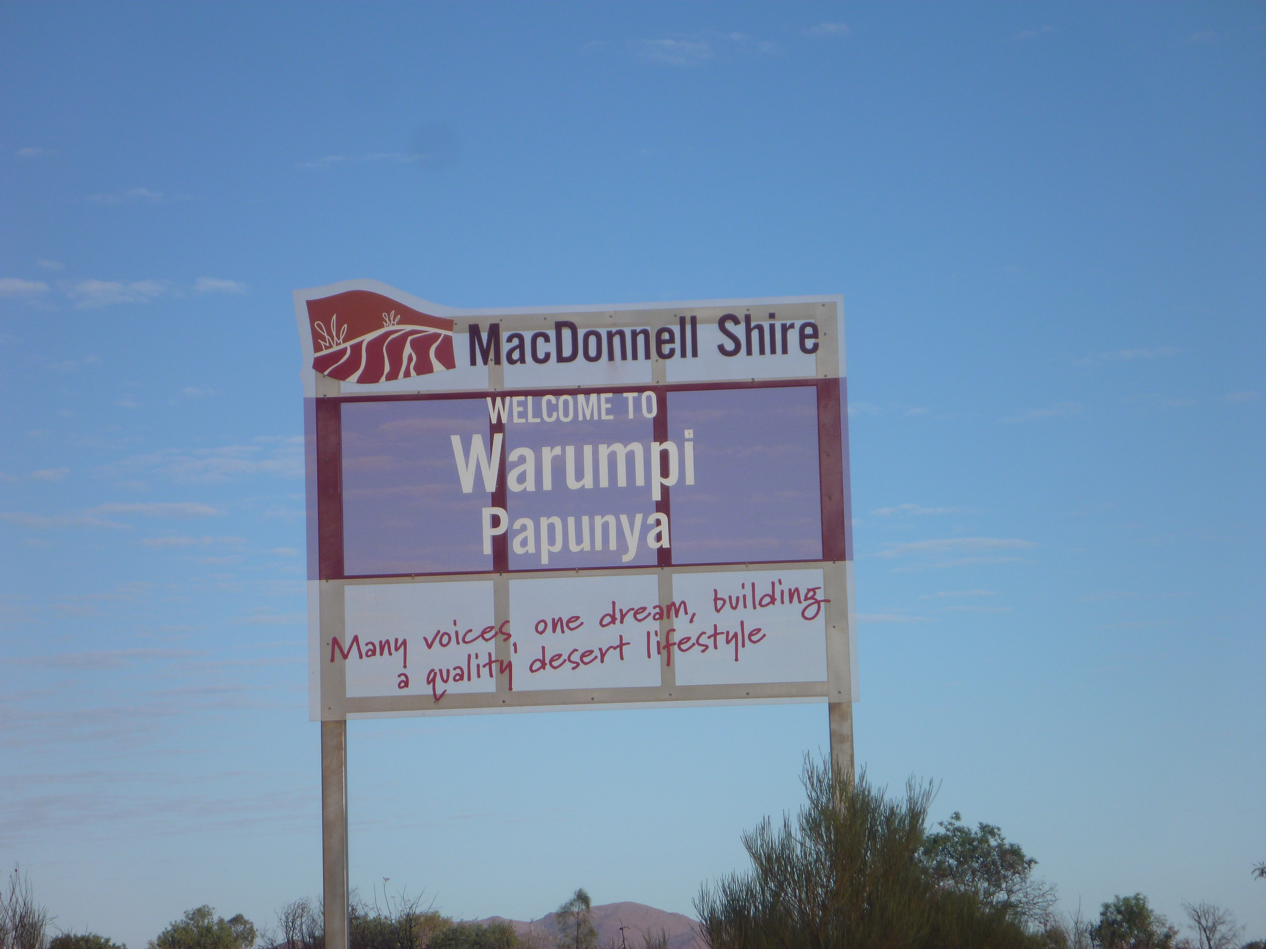 Papunya, N.T.